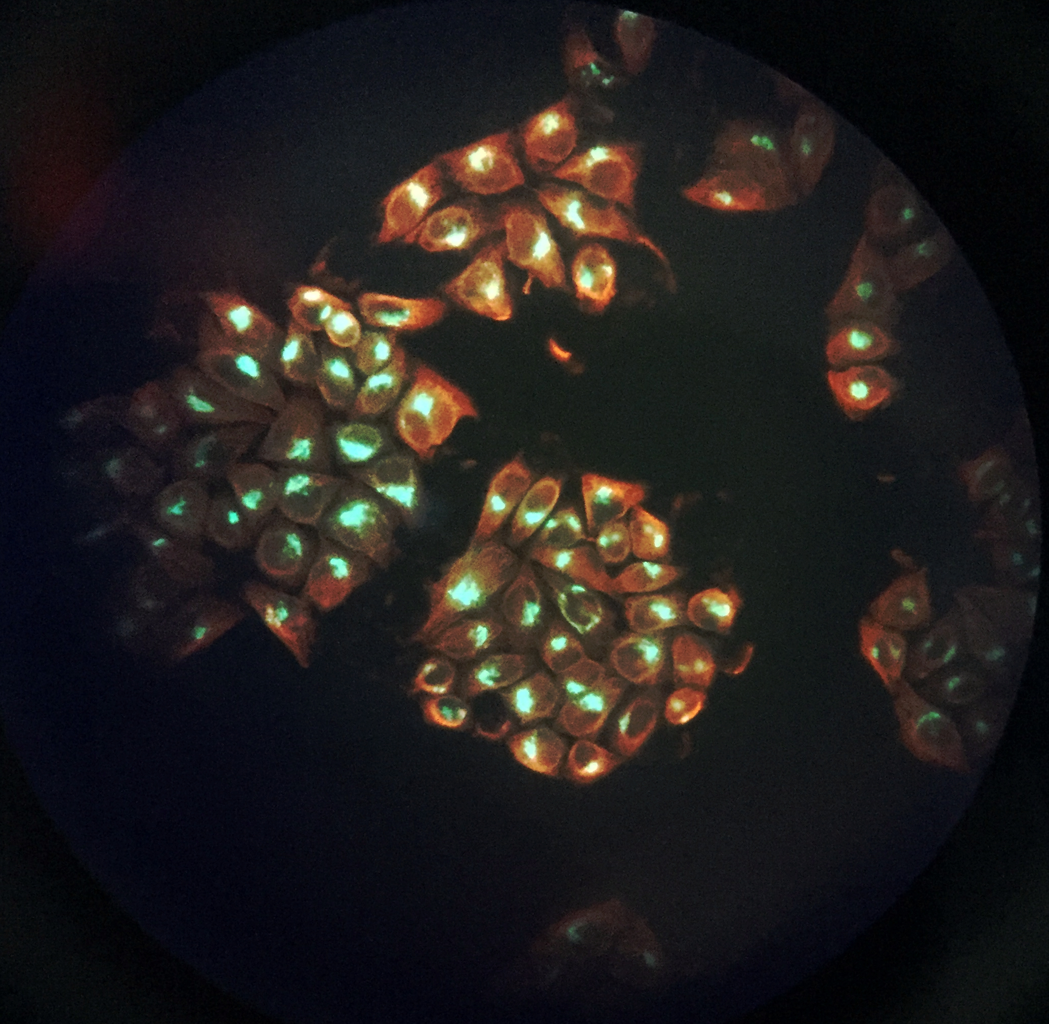 Using immunofluorescence we target in red the actin filament and in green microtubuli structure of HeLa cells.